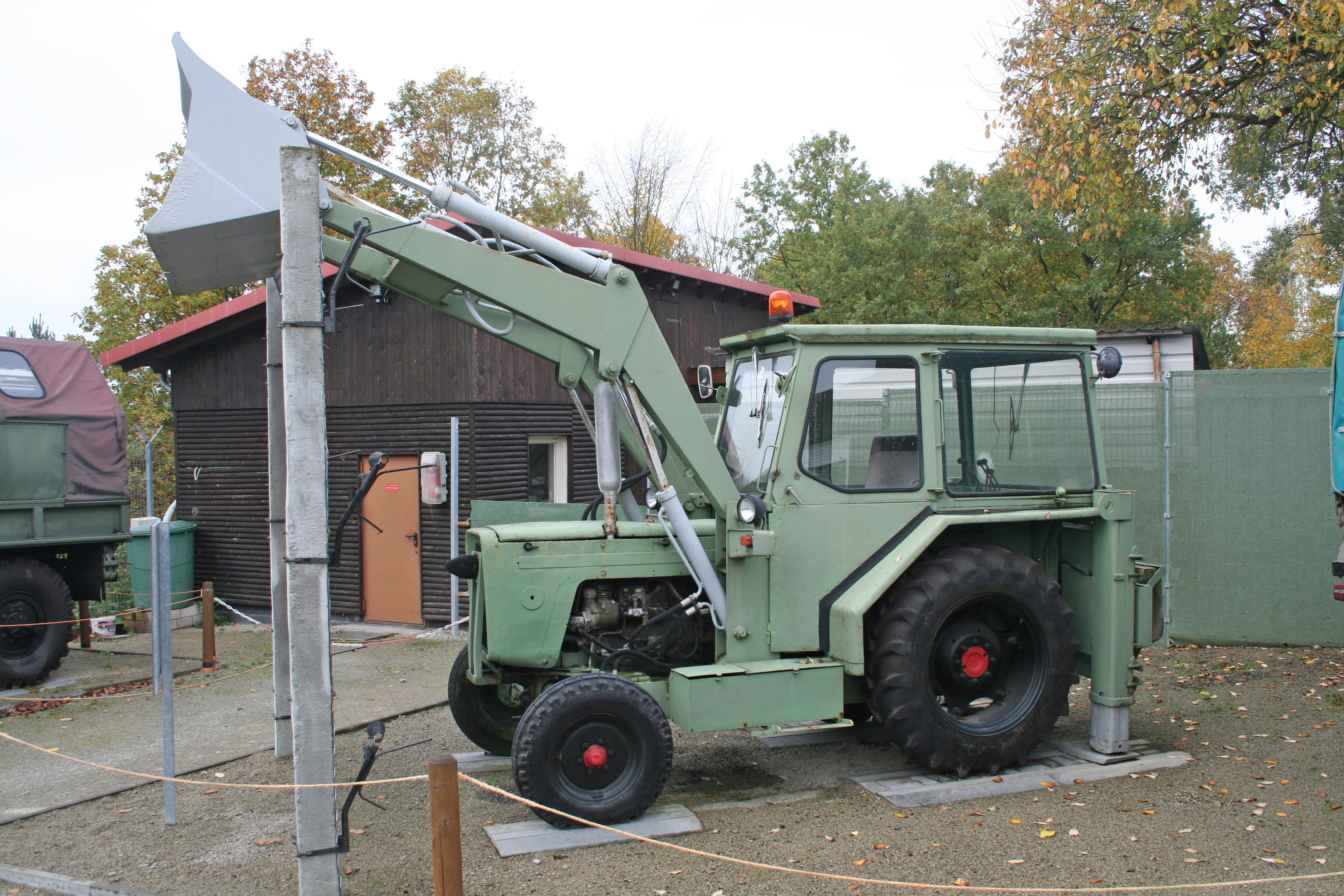 Original backhoe loader (without the rear bucket) used by Heinz-Josef Große in 1982, on display at the German border museum "Schifflersgrund"